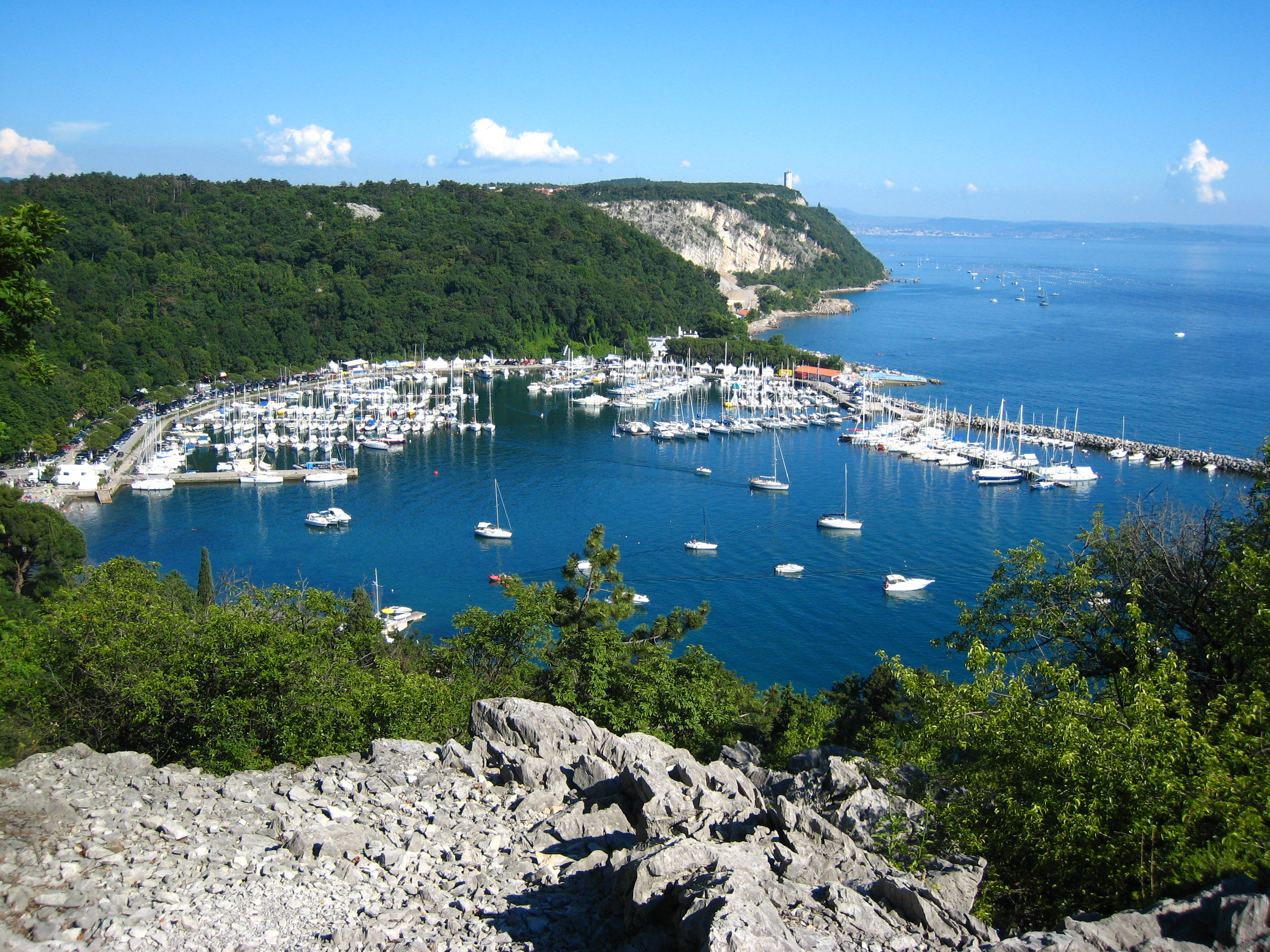 The bay of Sistiana from Rilke path